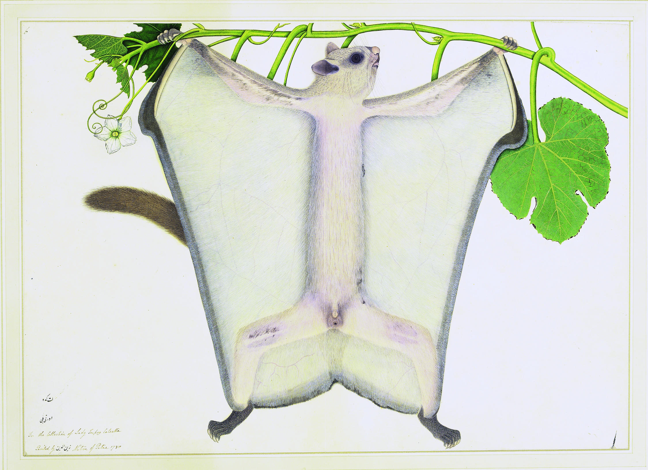 Series Title: The Impey Album Suite Name: The Impey Album Display Artist: Shaikh Zayn al-Din Creation Date: ca. 1780 Display Dimensions: 20 7/8 in. x 29 17/32 in. (53 cm x 75 cm) Credit Line: Edwin Binney 3rd Collection Accession Number: 1990.1358 Collection: The San Diego Museum of Art